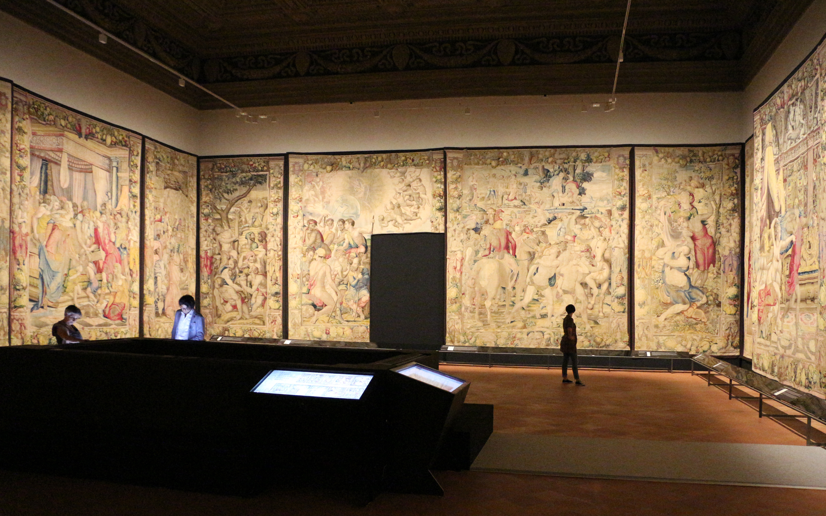 Medicean tapestries of the Stories of Joseph